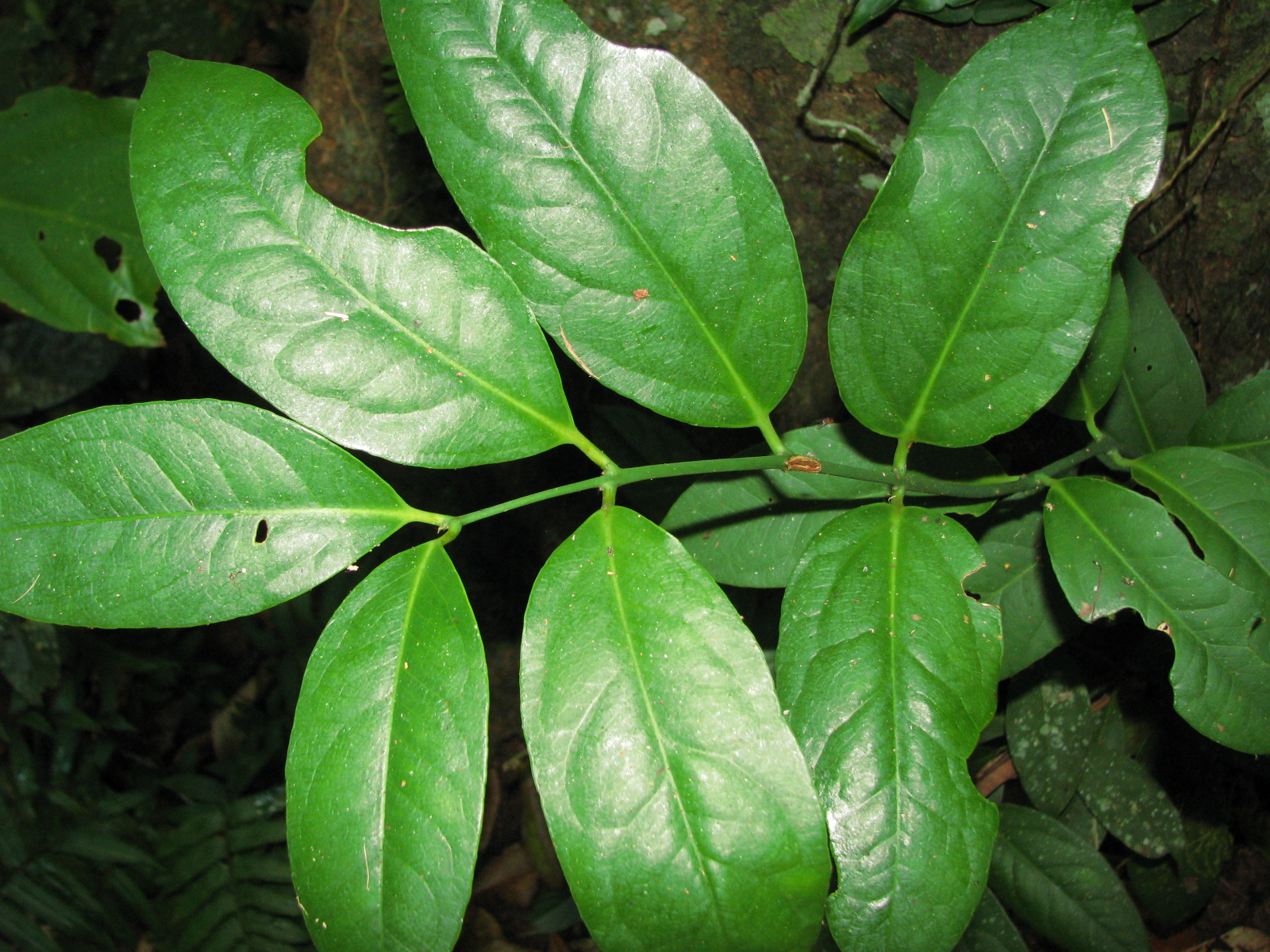 Branch of Austrobaileya scandens, Wooranooran National Park, Queensland, Australia.